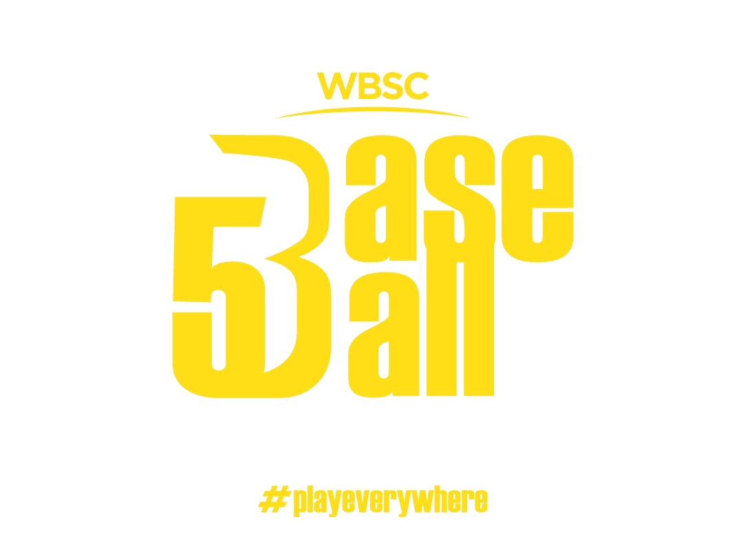 Baseball5 logo